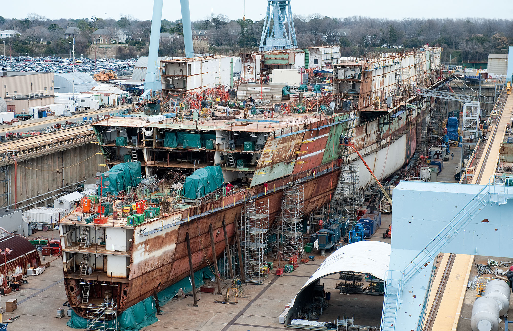 NEWPORT NEWS, Va. (Feb. 27, 2012) The aircraft carrier Gerald R. Ford (CVN 78) is under construction at Huntington Ingalls Industries-Newport News Shipbuilding. Gerald R. Ford is the first in class of a new carrier design being built at Newport News. (U.S. Navy photo by Ricky Thompson/Released) 120227-N-ZZ999-011 Join the conversation navylive.dodlive.mil